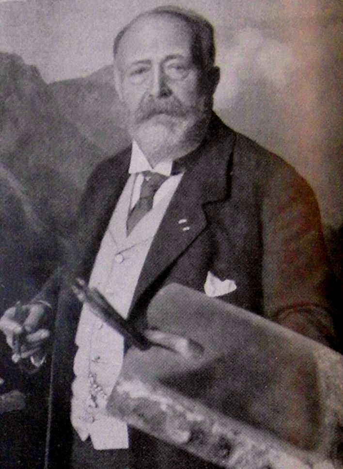 German painter, Themistokles von Eckenbrecker (1842-1921)